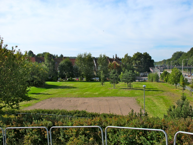 Karlsrofältet (Karlsro field) in Änggården in Göteborg, the first pitch used by IFK Göteborg in 1904